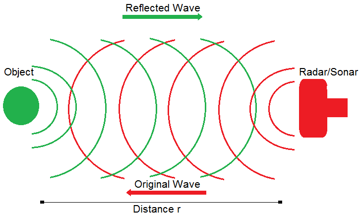 the radar system operation